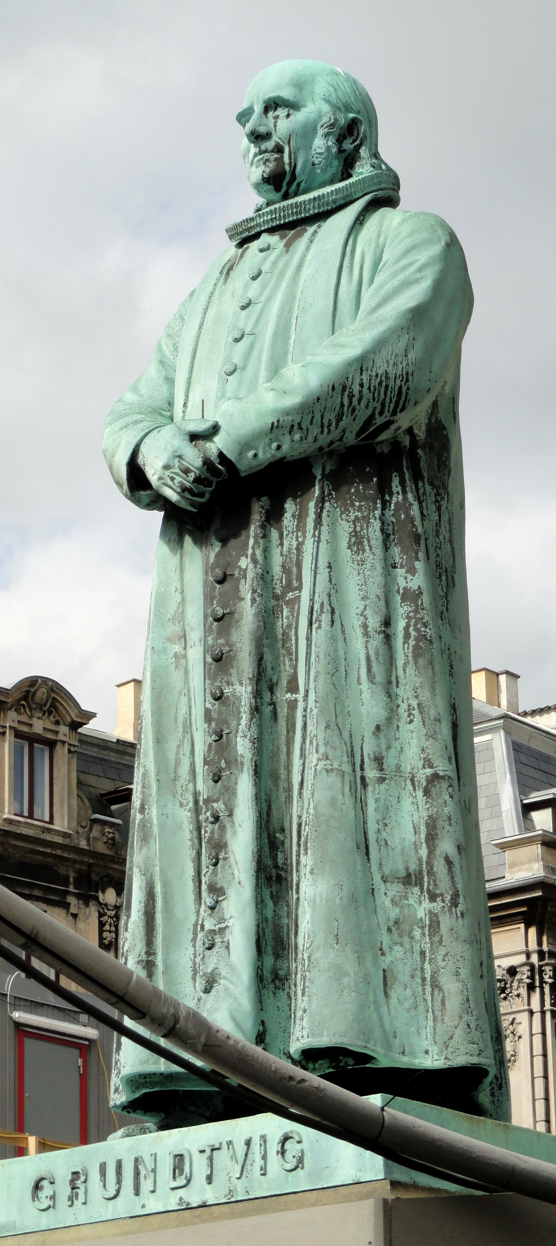 Statue of N. F. S. Grundtvig by Vilhelm Bissen (5 August 1836 – 20 April 1913), outside the Marmorkirken, Copenhagen, Denmark